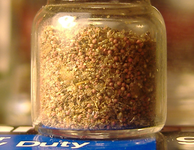 I took this photo of Triops Longicaudatus eggs. They are dried and ready to be hatched. The pink spheres are eggs and the brown bits are dried sediments.